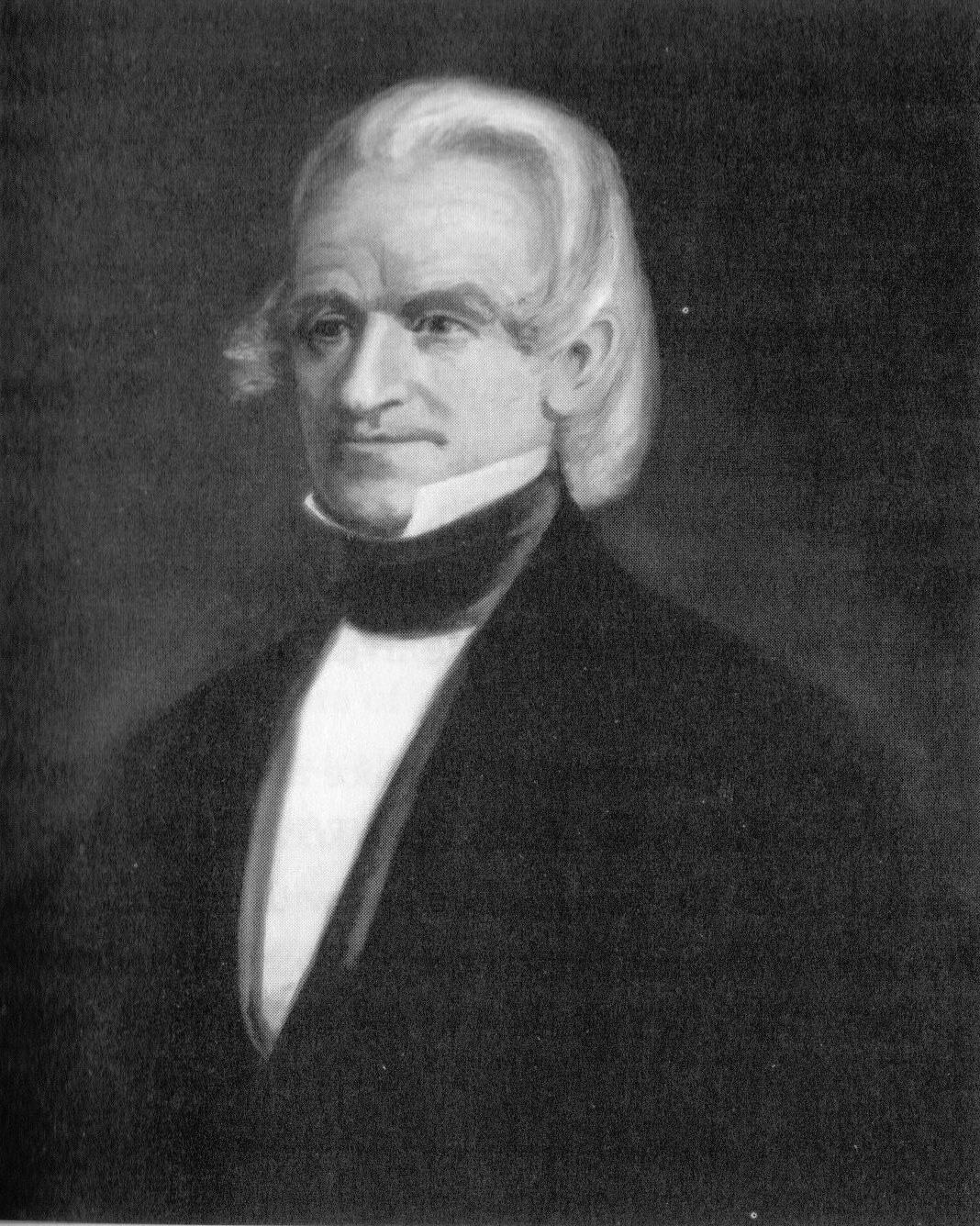 Kensey Johns, Jr. Image source: Martin, Roger A. (2003) Delawareans in Congress, Middletown, DE: Roger A. Martin ISBN 0-924117-26-5